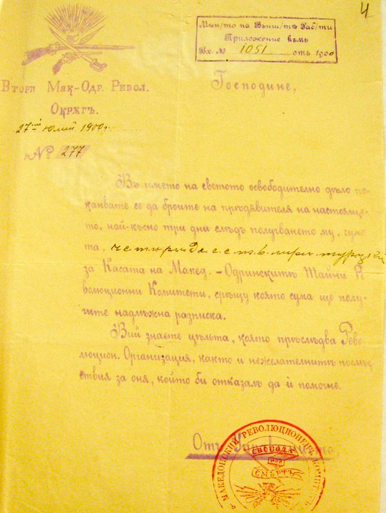 Appeal for Money of IMARO 1900